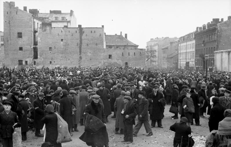 Warsaw Ghetto: Market at the intersection of Ksawery Lubecki street and Gęsia street. On the right wall of the Ghetto Central Jail" so called Gęsiówka. White building (second from the right)q is at Wołyńska 27 street. In the center are backs of the buildings at Ostrowska Street including Ostrowska 1.